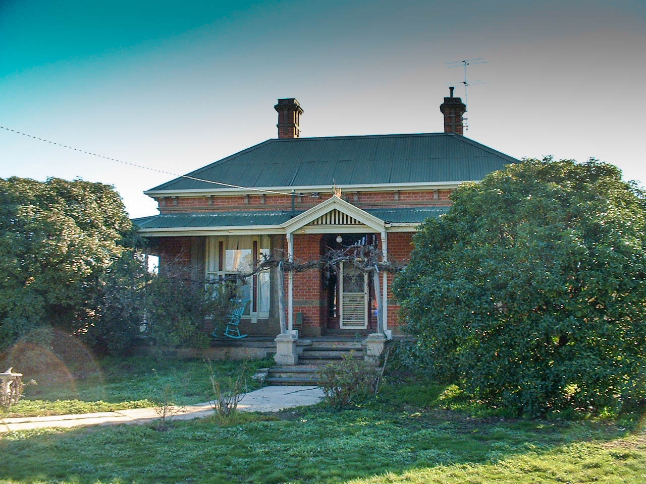 A brick house in Chiltern, Victoria, Australia, the former home of Australian Prime Minister, Sir John McEwan